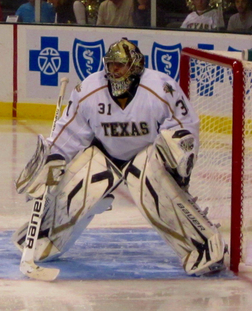 Goaltender Richard Bachman